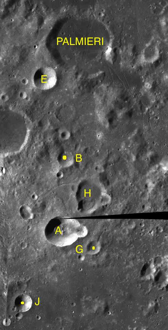 Parts of the charts LAC-93, LAC-110 used for the presentation